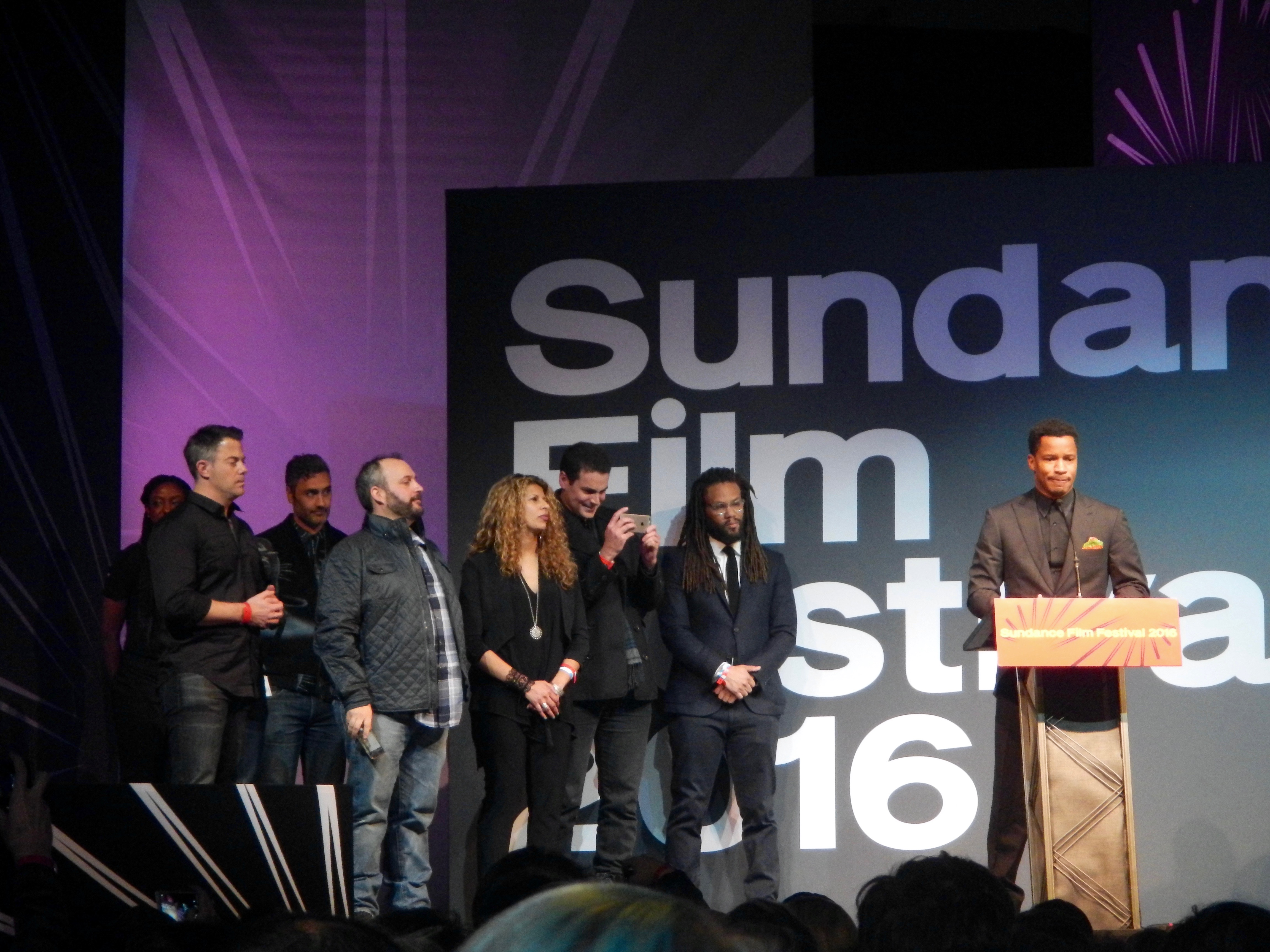 2016 Sundance Film Festival Awards, Park City UT